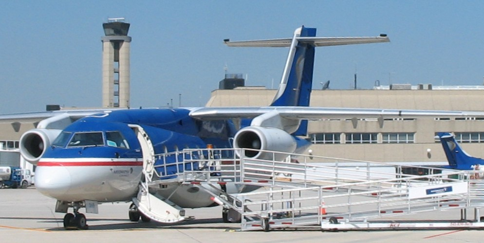 General Mitchell International Airport with a Midwest Airlines Fairchild Dornier 328JET aircraft and 200 foot control tower.